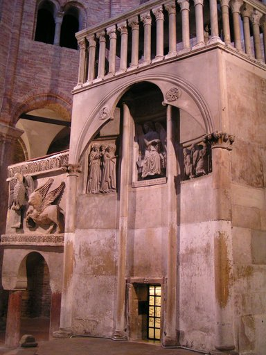 Buildings of Saint Stephen's Basilica in Bologna, Italy, also known as "The Seven Churches". In this picture, the old pulpit, within the building called "Basilica del Santo Sepolcro". Photo by Bob Tubbs.